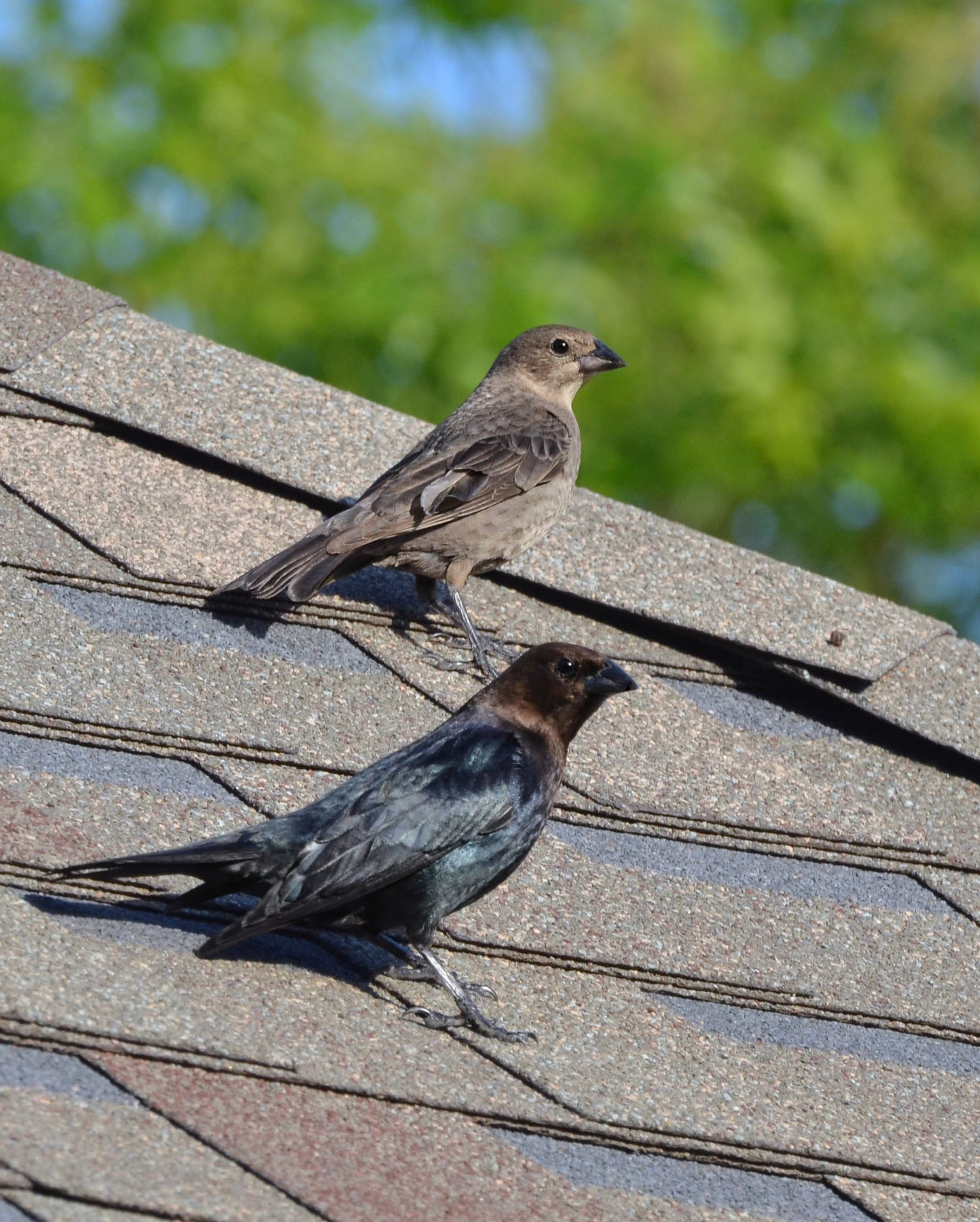 Molothrus Ater. The male is dark with a brown head, while the female is brown and less distinct.